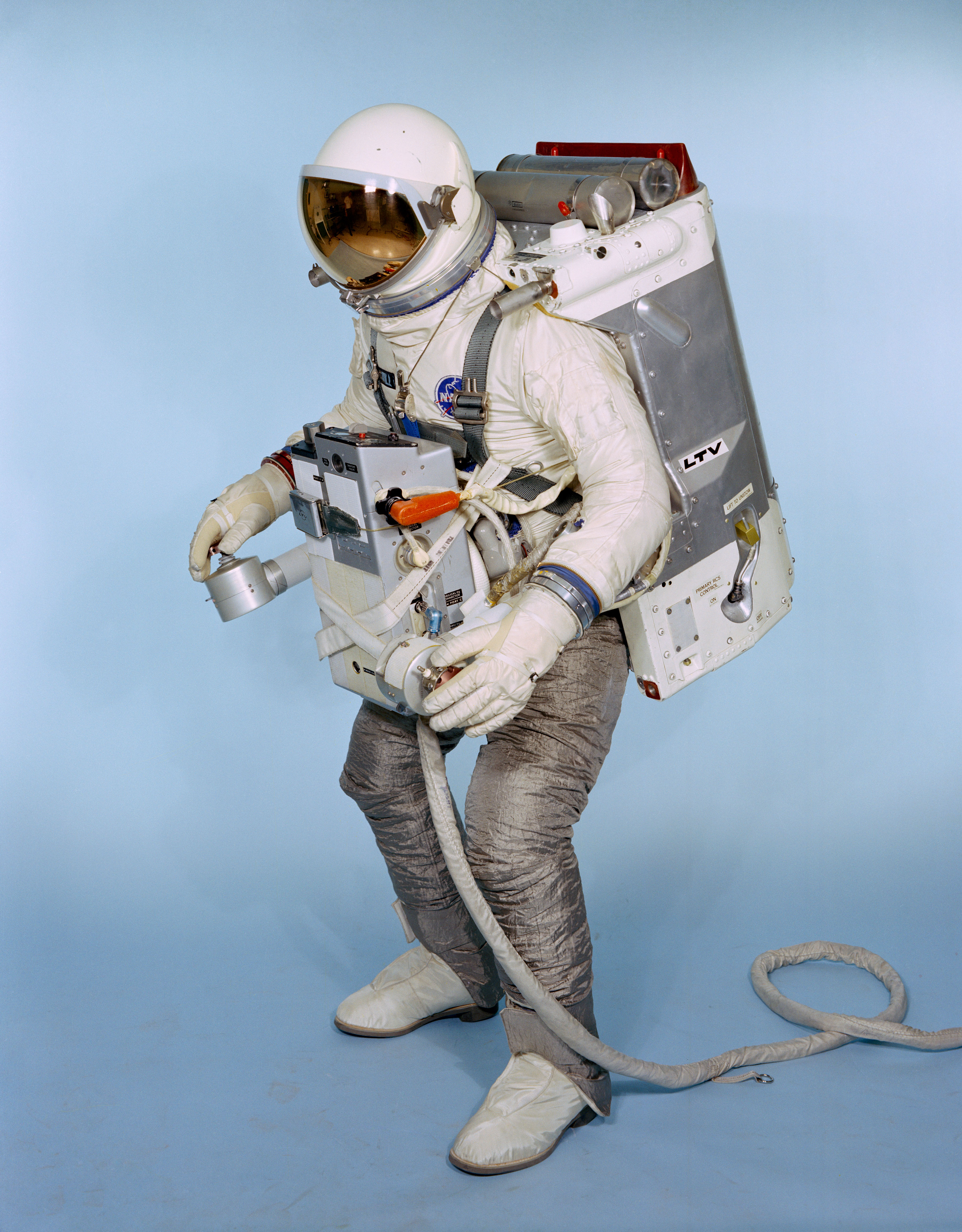 Test subject Fred Spross, Crew Systems Division, wears the Gemini 9 configured extravehicular spacesuit assembly. The legs are covered with Chromel-R, which is a cloth woven from stainless steelmetal fibers, used to protect the astronaut and suit from the hot exhaust thrust of the Astronaut Maneuvering Unit. Image ID:S66-33167